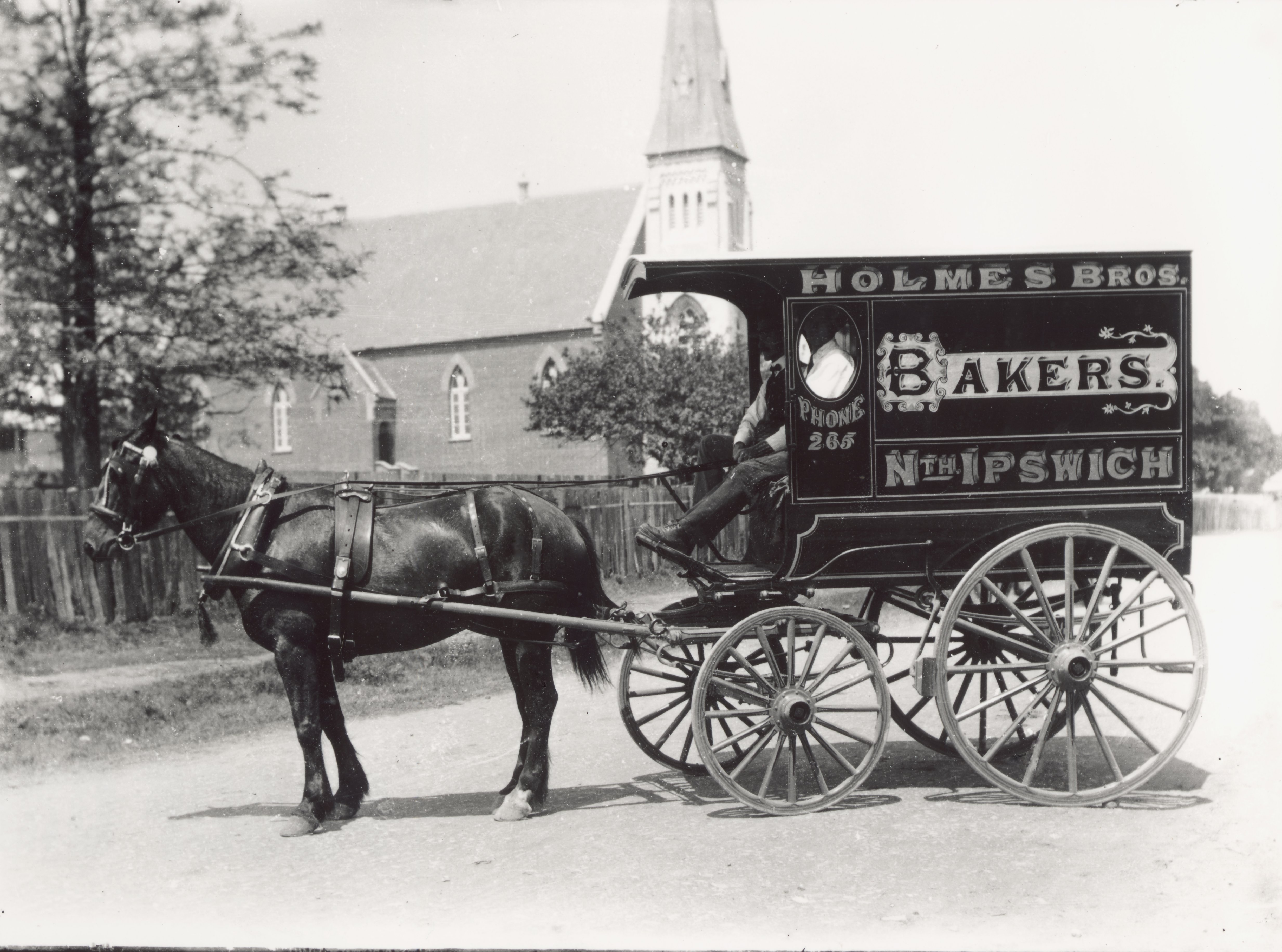 Holms Brothers baker’s van Every street in Australian towns was served by delivery vehicles such as this baker’s van. Most families did not own a buggy to go shopping, so milkmen, butchers, bakers, fruiterers, fish mongers all delivered door-to-door. This van was built in the AE Roberts workshop and photographed in the street outside. Queensland Museum holds over 1000 of Bert Roberts' plate glass negatives and prints from the era.